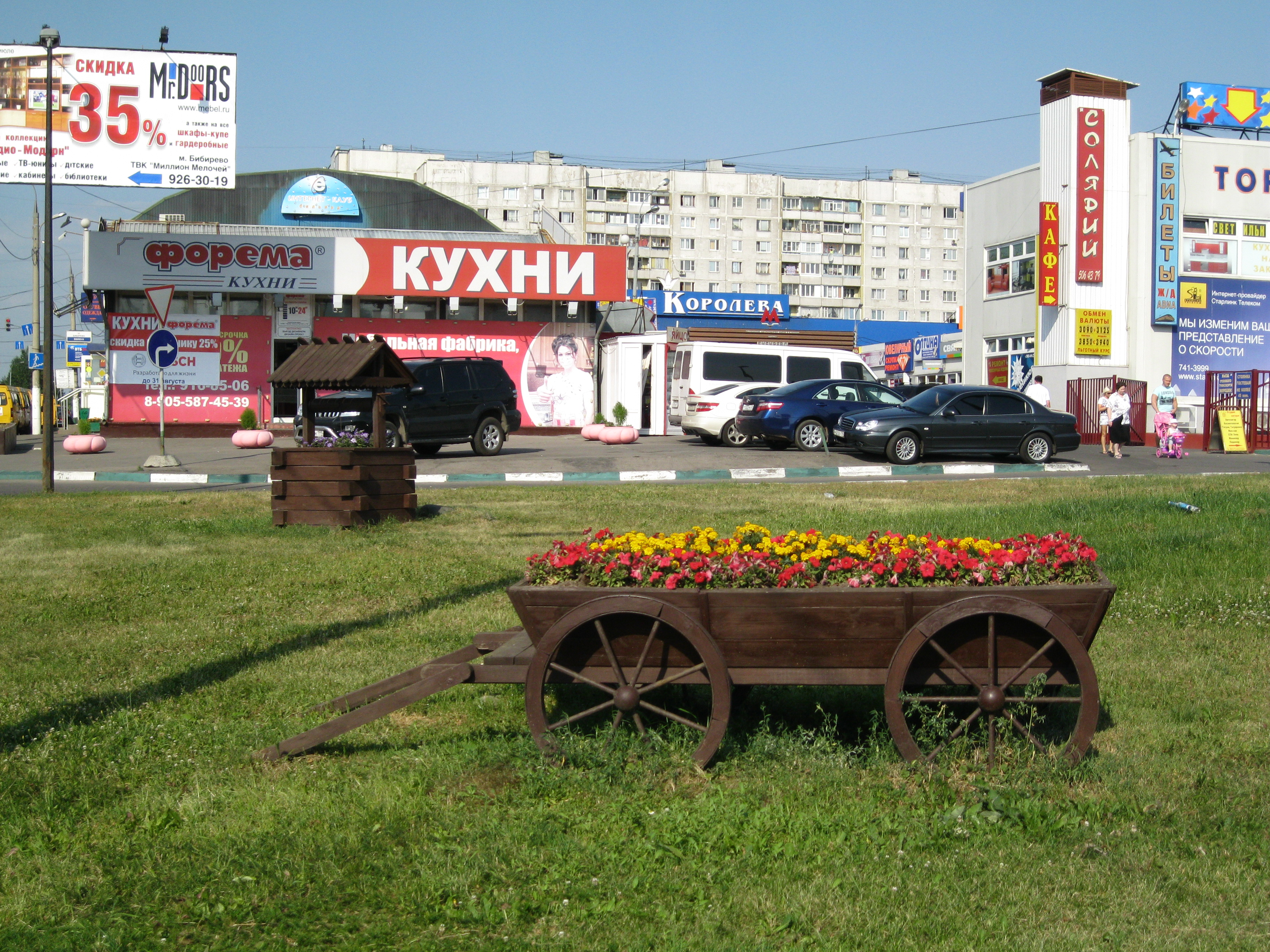 Little architecture in Bibirevo, Moscow, Russia